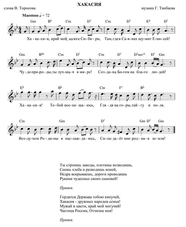 National Anthem of Republic Khakassia